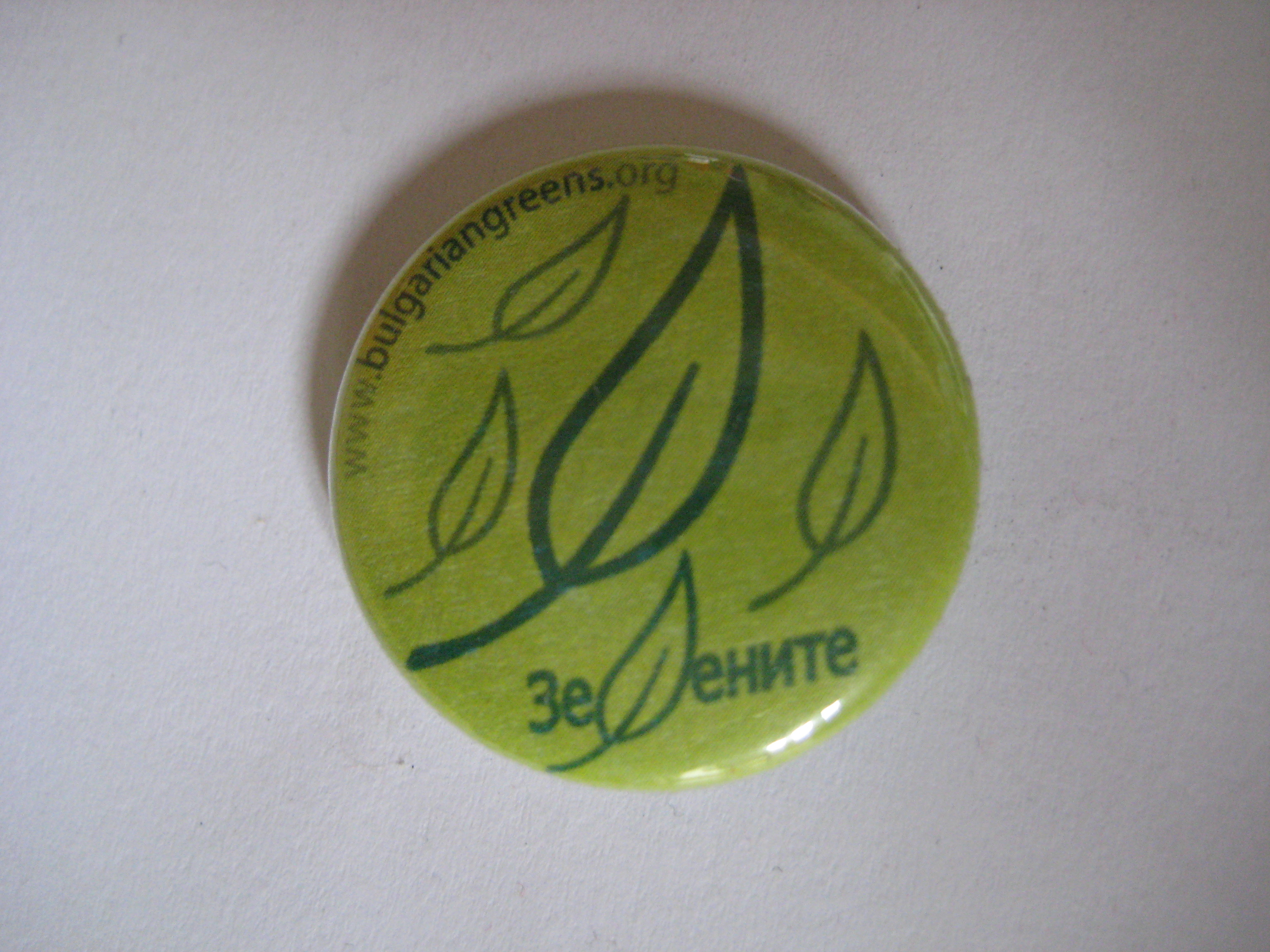 Election campaign button of The Greens (Bulgaria)